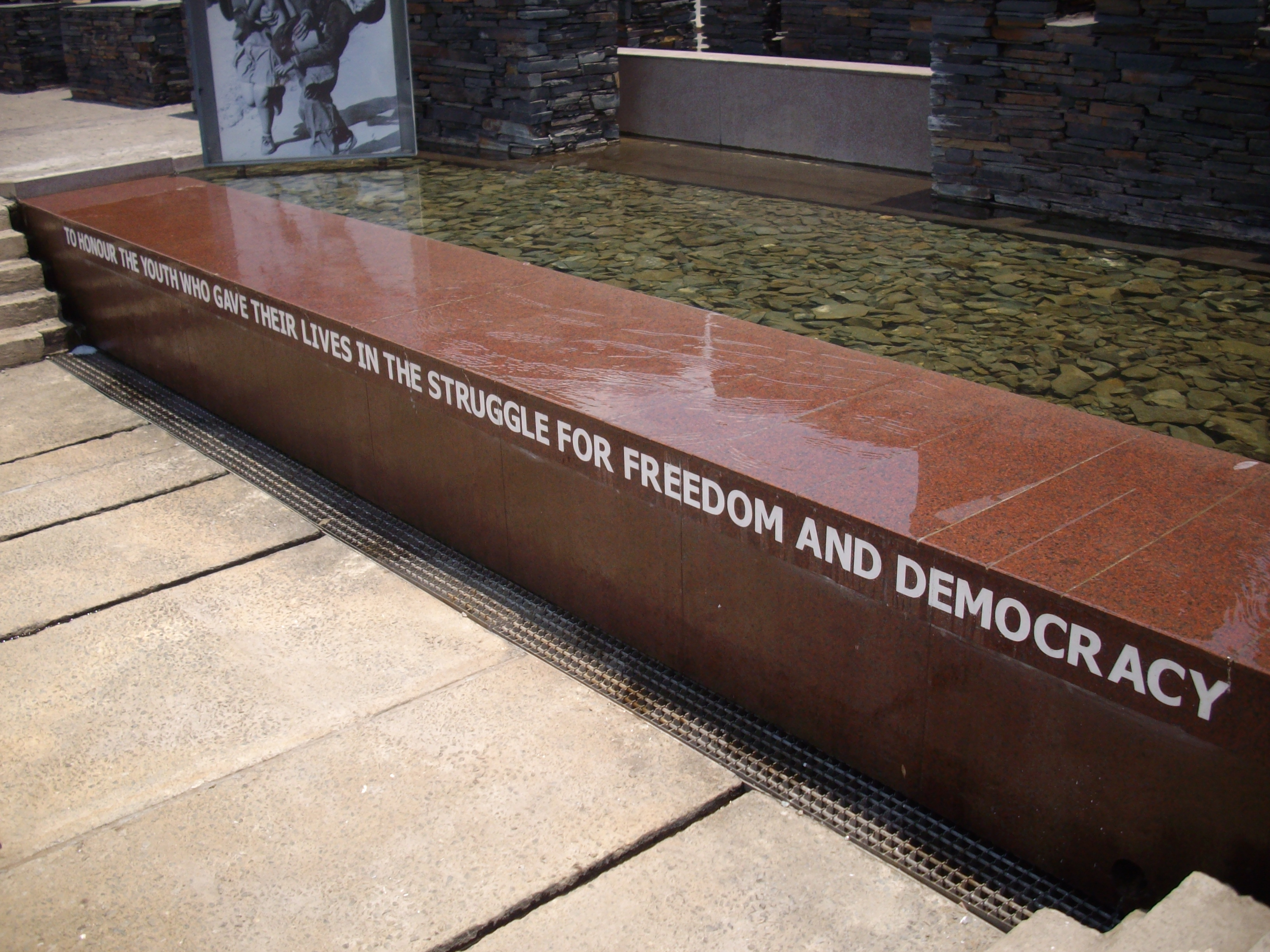 The fountain at the Hector Pieterson Museum